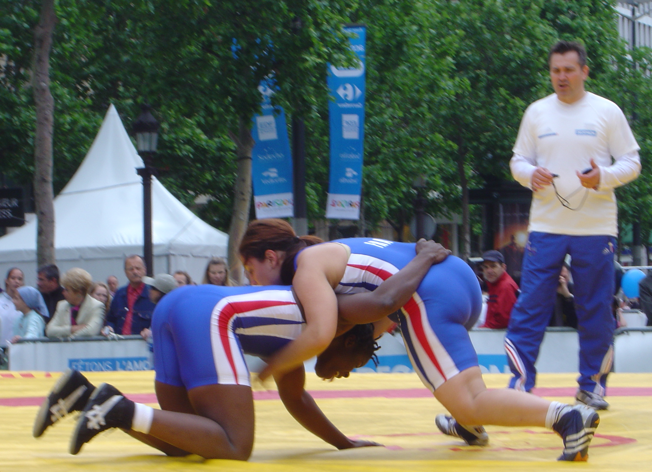 female sport wrestling Party promoting the candidacy of Paris to the 2012 Olympic Games., Avenue des Champs-Élysées (Paris), 5 June 2005